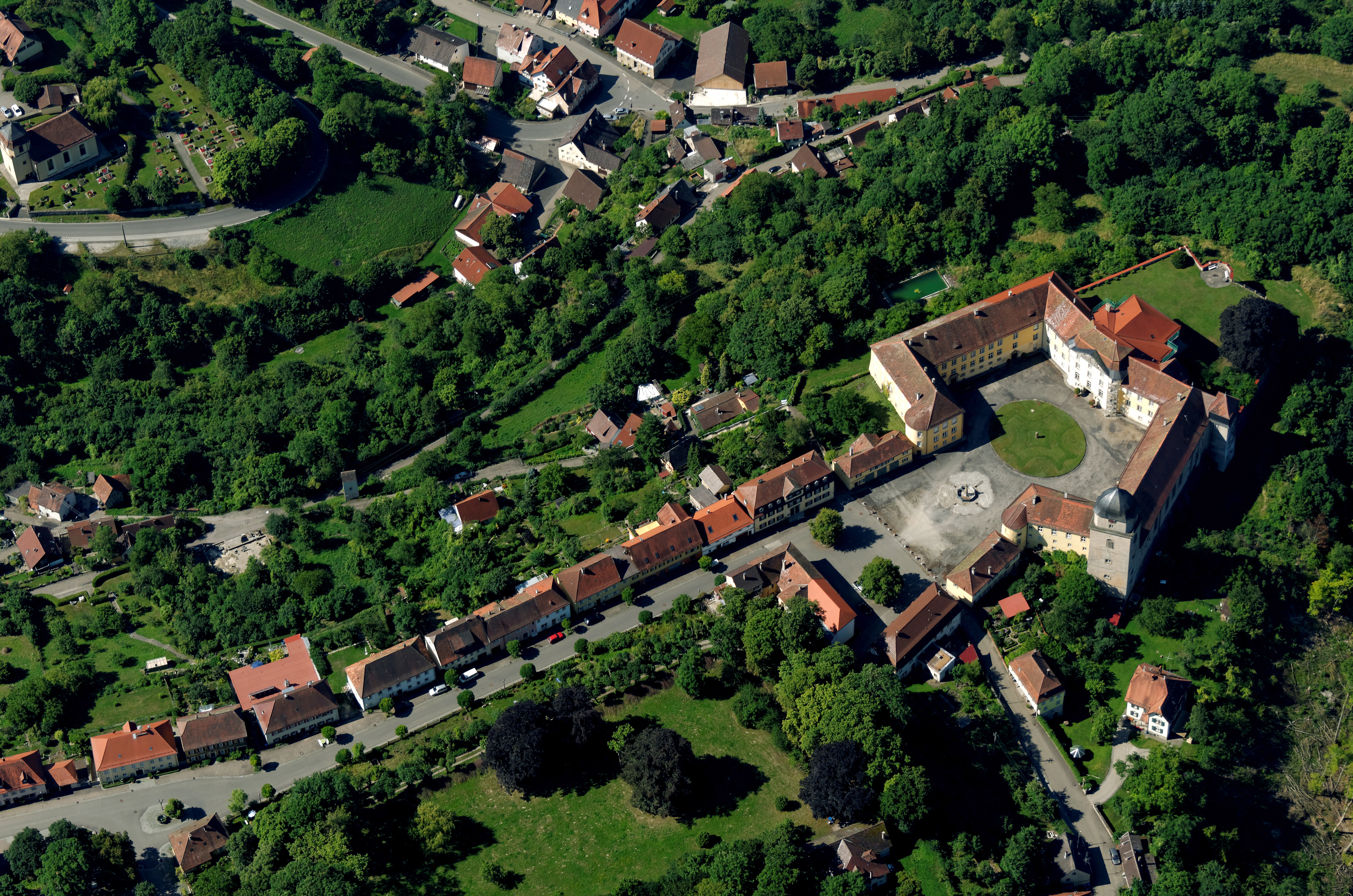 Baroque residence Bartenstein.